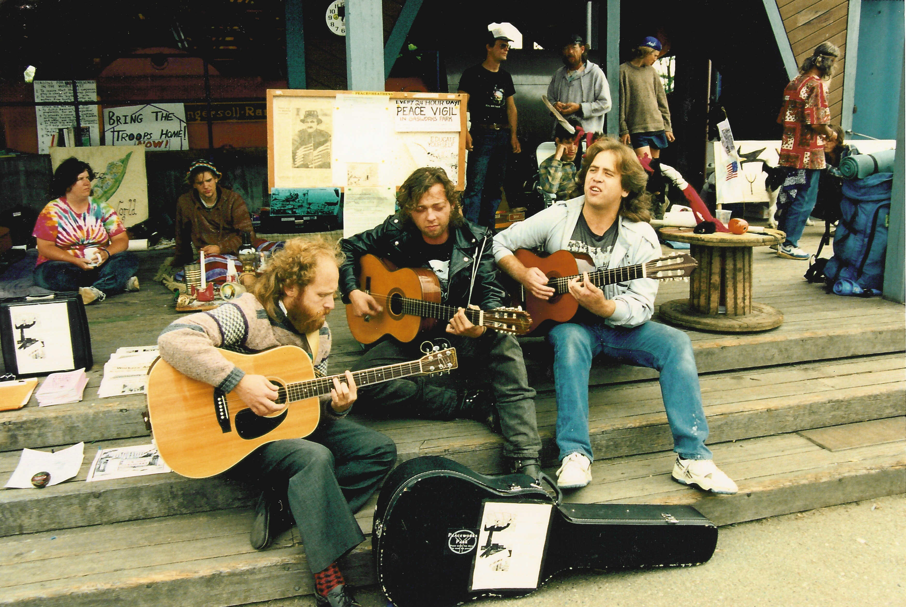 Musicians at the PeaceWorks Park vigil, an anti-war protest action that occurred in Gas Works Park, Seattle, Washington, U.S. beginning Sunday, August 26, 1990 and carrying on through the end of the Gulf War.